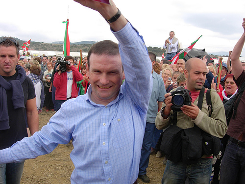 Basque President, Ibarretxe.Photo taken in 2005, Alderdi Eguna (Basque National Party's day).